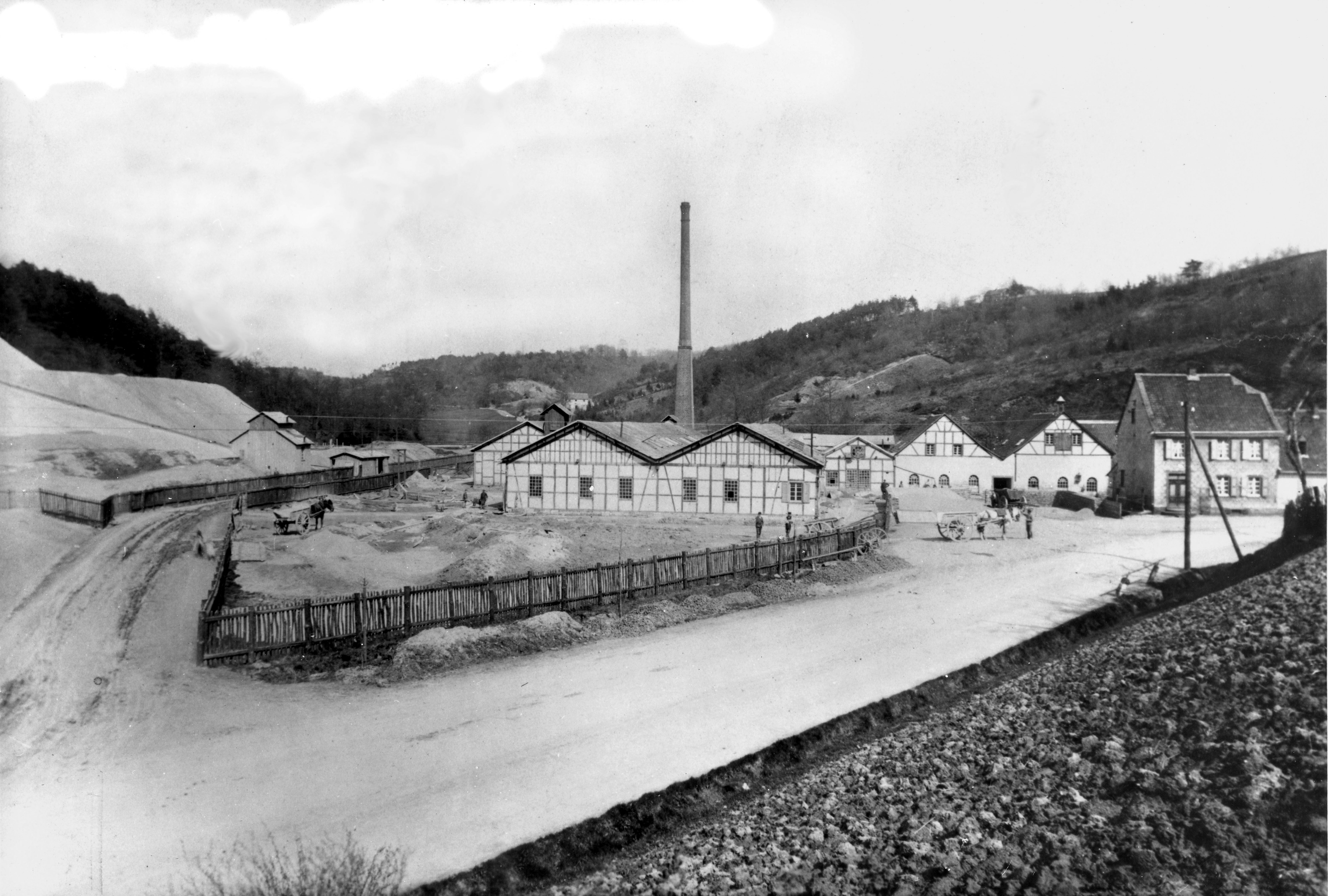 washhouse mine Steinenbrück 1890